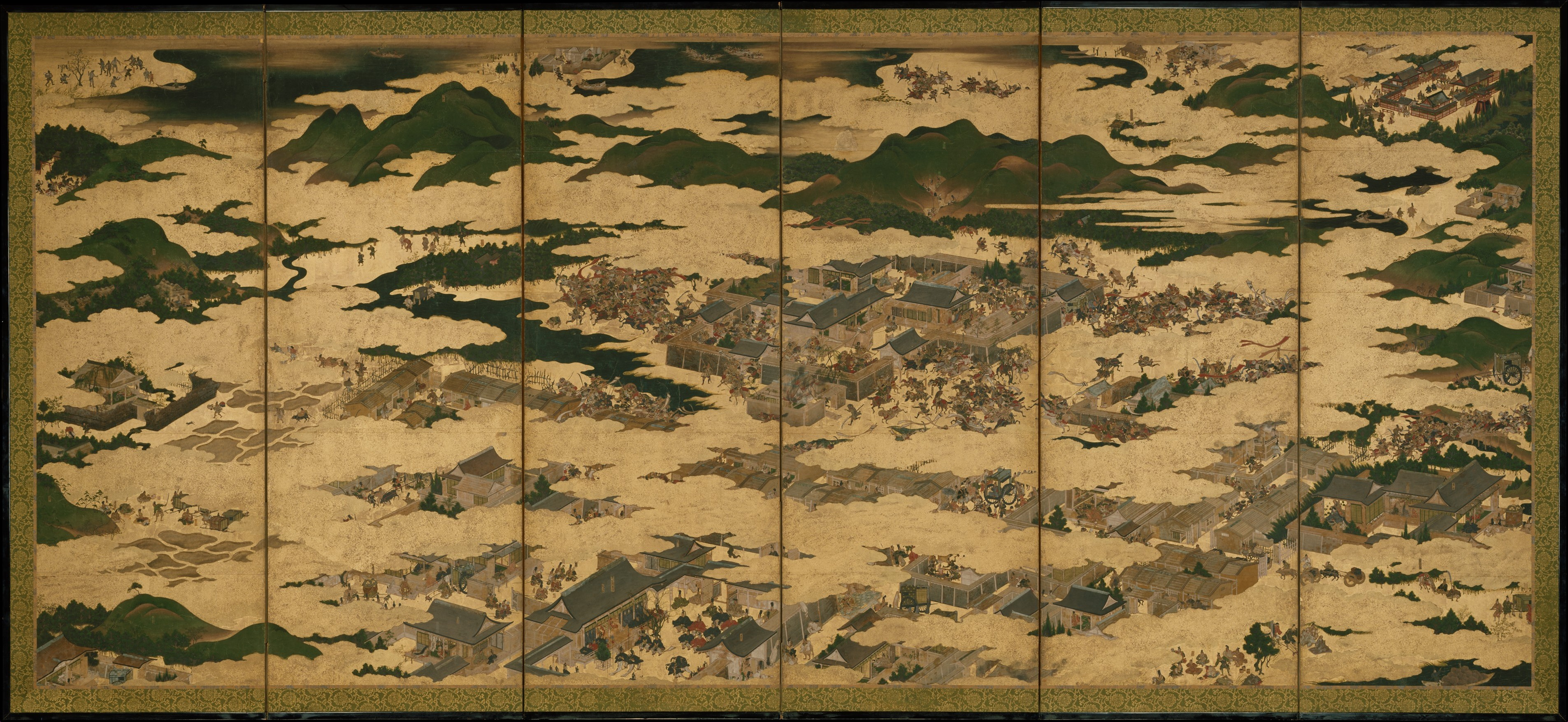 Japan; Screens; Screens